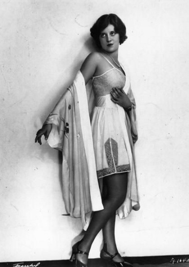 Dorothy Gulliver